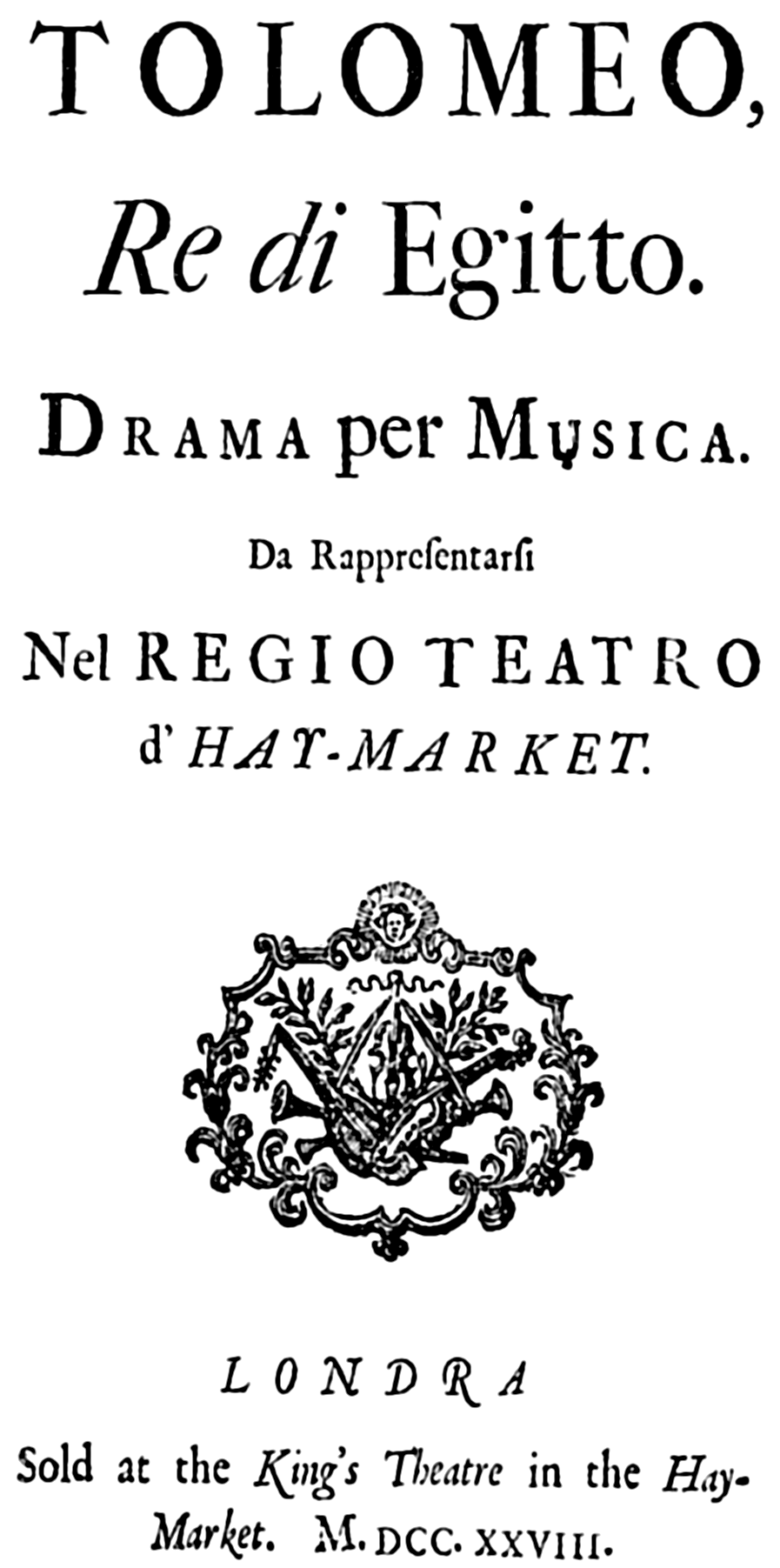 Georg Friedrich Händel - Tolomeo - title page of the libretto - London 1728